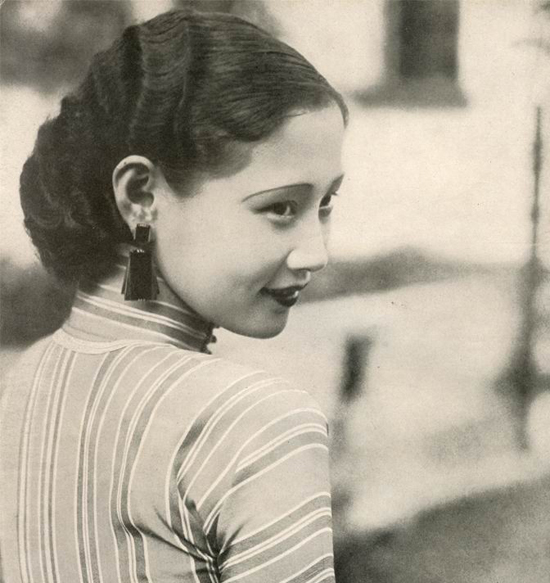 1930s Shanghai actress Xu Lai